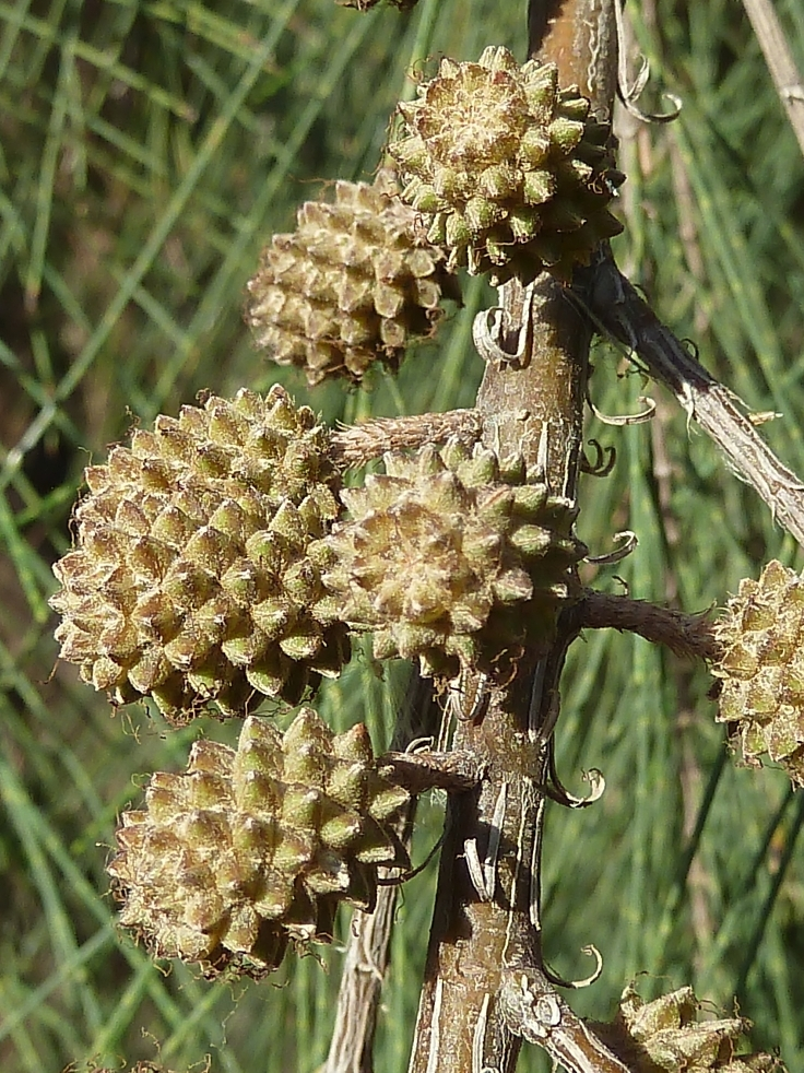 Casuarina cunninghamiana : Immature infrutescences in situ, Parque de la Huerta - Albatera (Alicante, Spain).